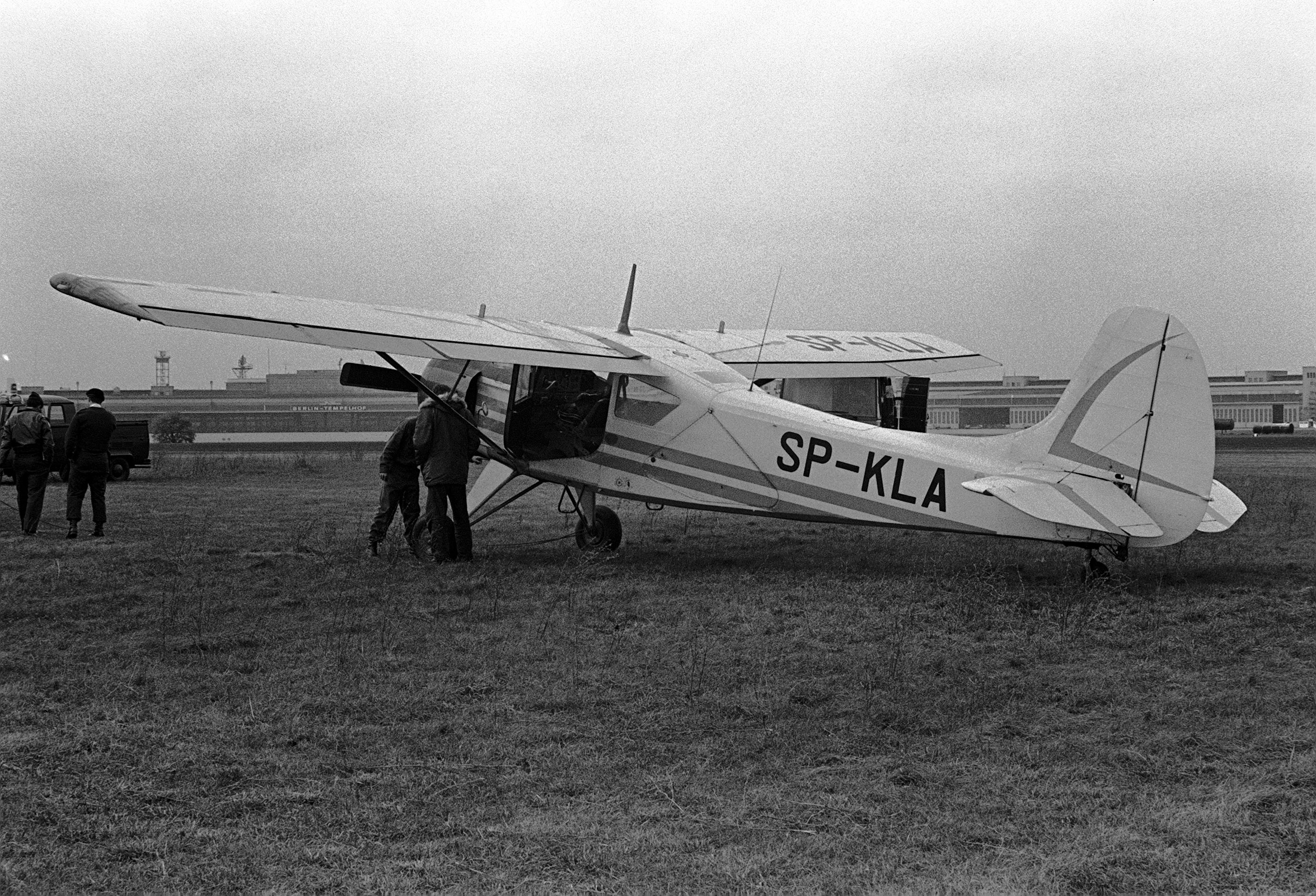 A Yak-12 aircraft that made an unauthorized landing at Tempelhof Central Airport after being stolen from a sport flying field in Poland.